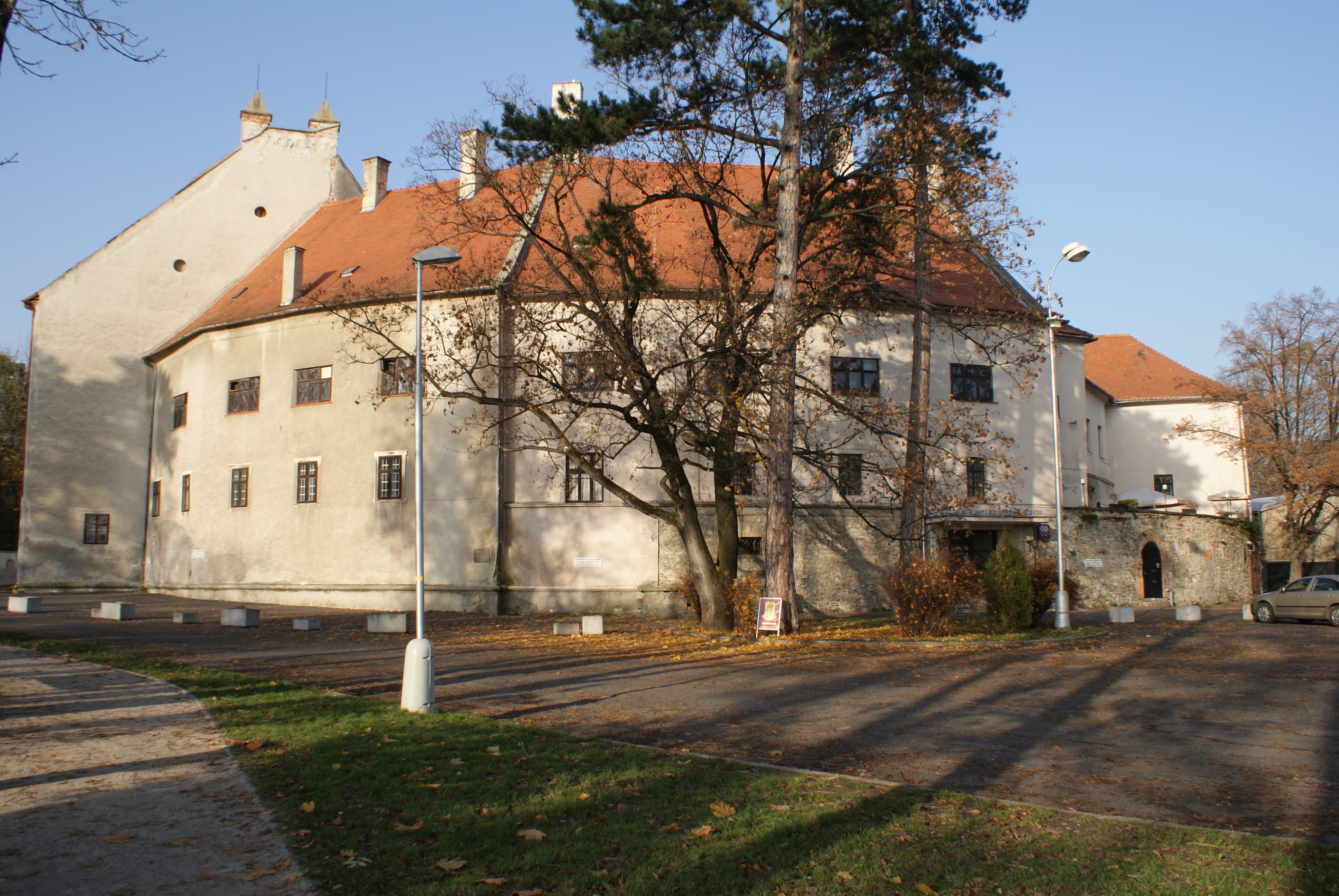 Pezinok, Slovakia, castle